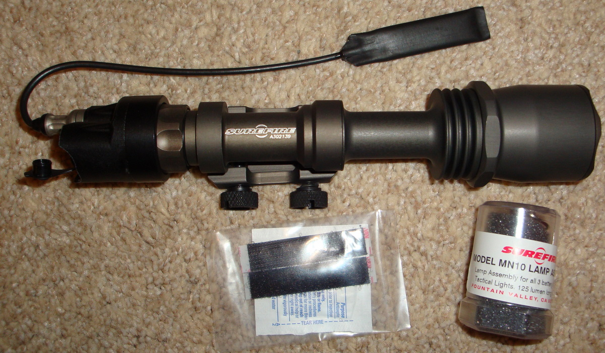 Flashlight